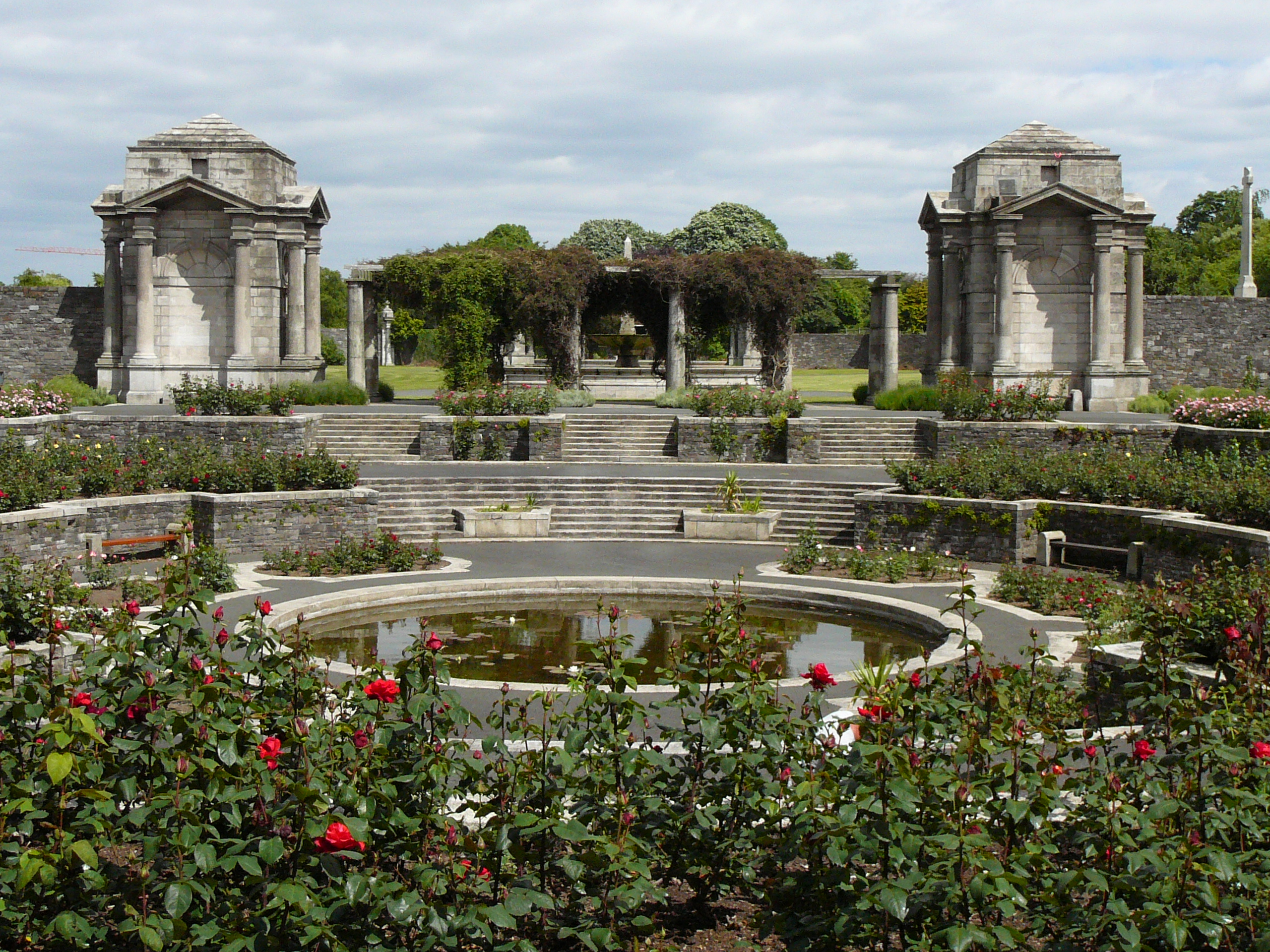 Irish National War Memorial Gardens, Dublin, Ireland, centre setting of circular Rose-Gardens.